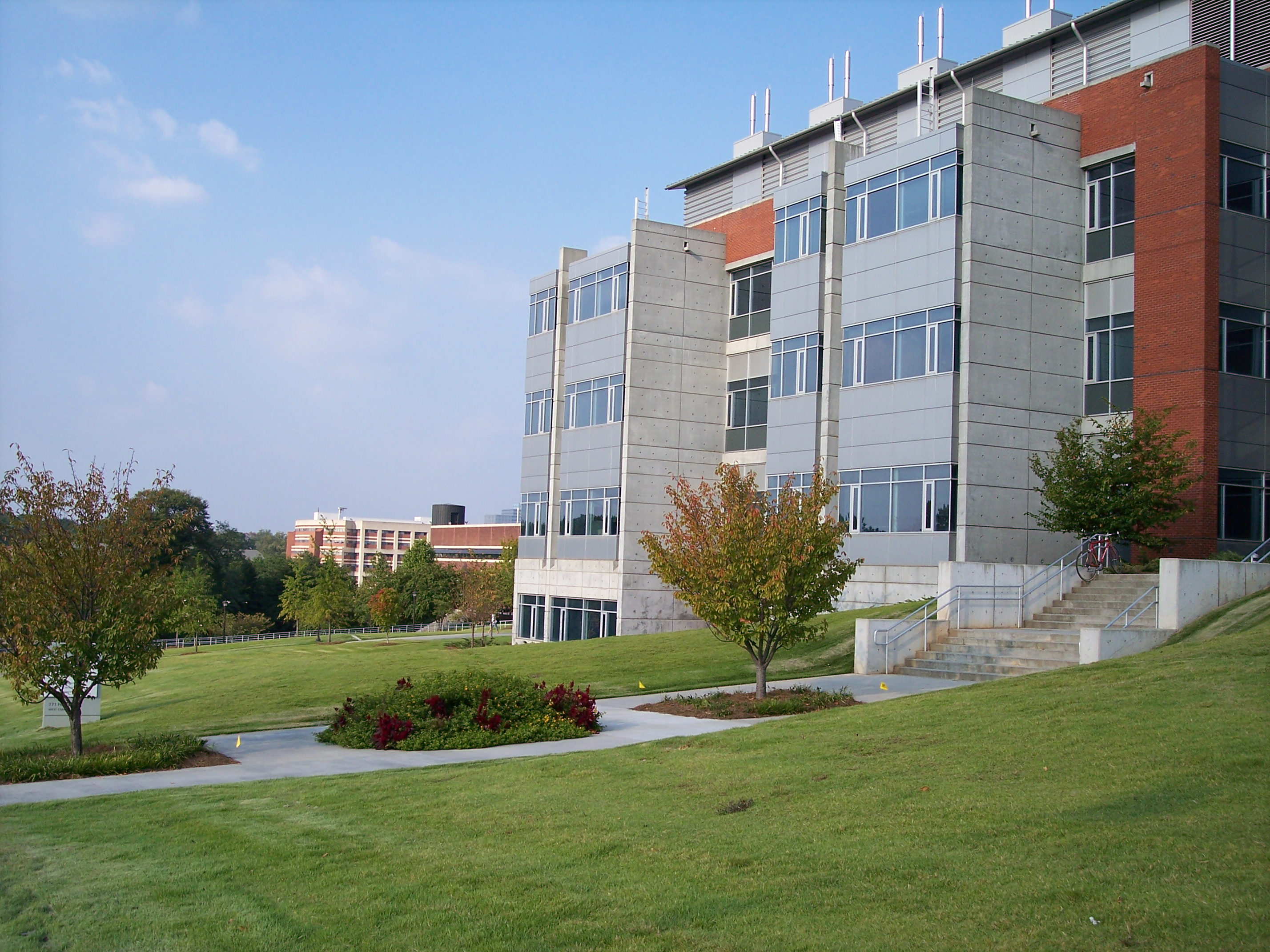 J. Erskine Love Jr. Manufacturing Building, West campus, Georgia Tech, Atlanta, GA, USA.